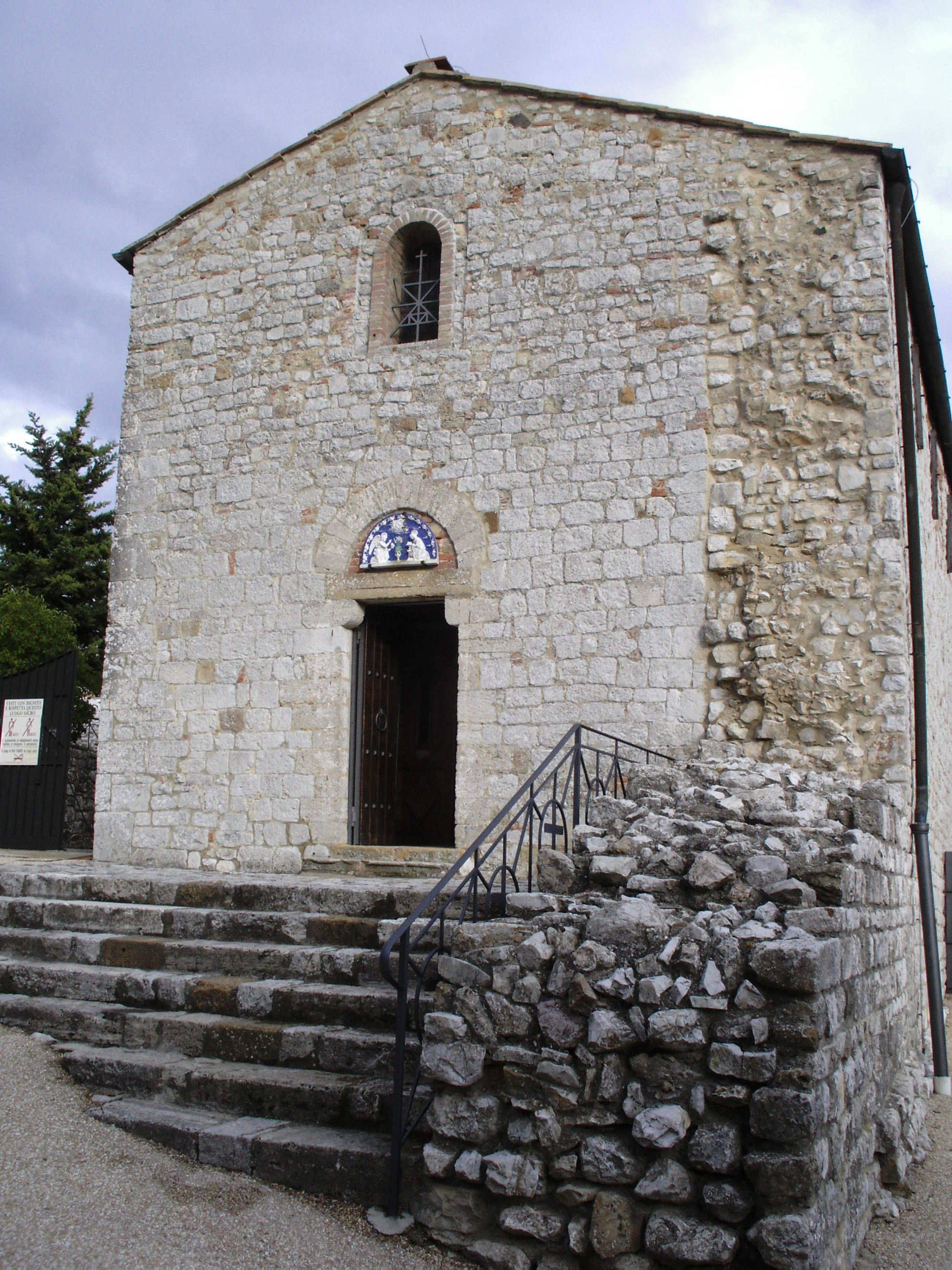 Pieve (Church) of San Frediano, Montignoso, Gambassi Terme